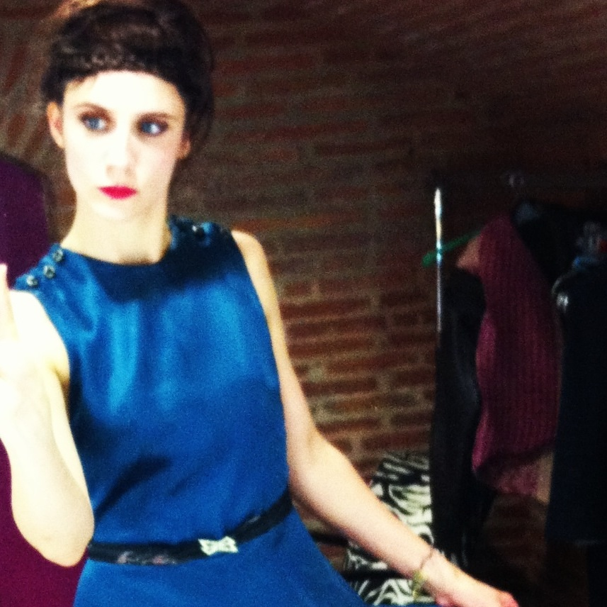 Judith Chemla